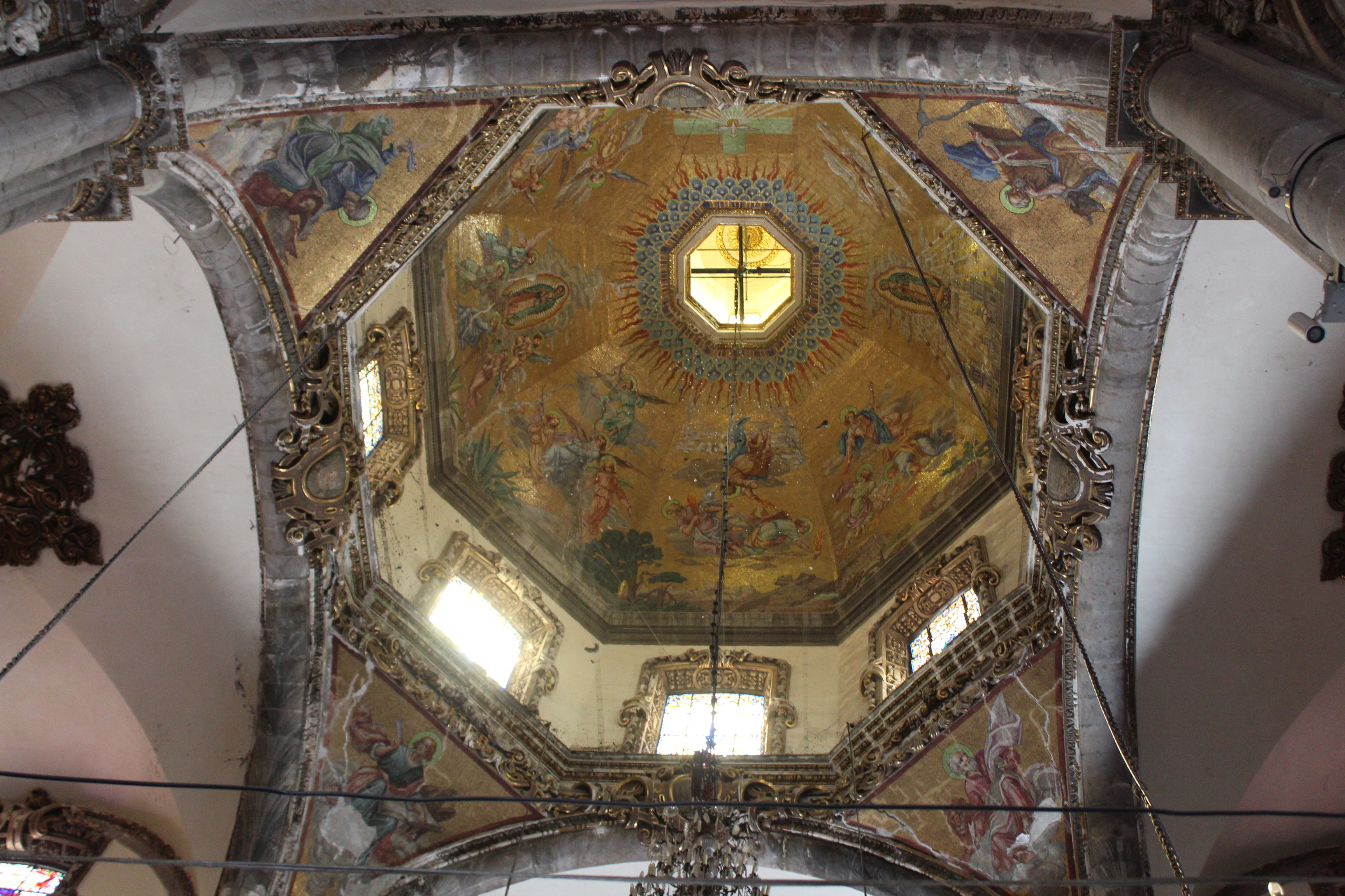 Antigua Basílica de Nuestra Señora de Guadalupe — the original basilica at the Shrine of Our Lady of Guadalupe in Tepeyac, México City, México. Under construction from 1531 to 1707. The church's major architect was Pedro de Arrieta, in the 17th century.